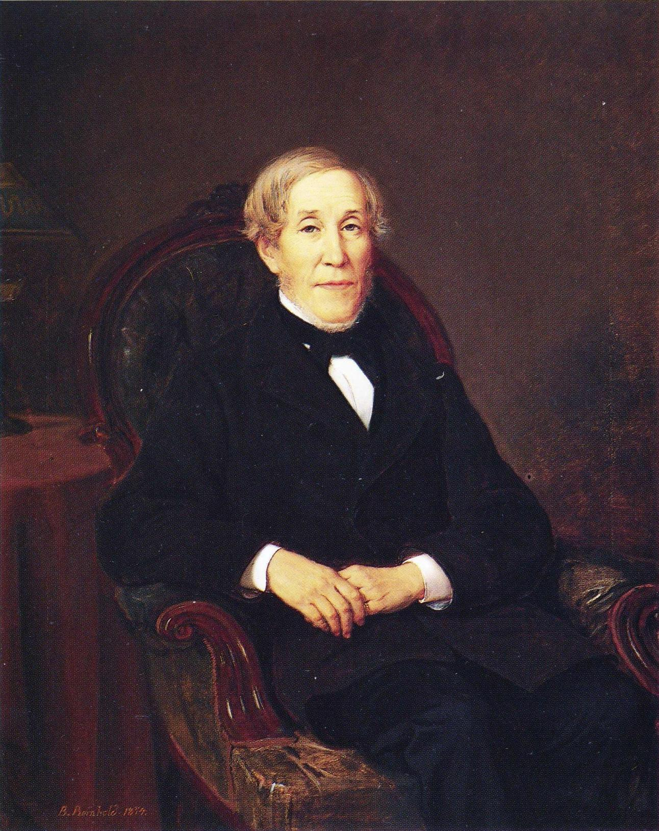 Senator Johan Vilhelm Snellman (1806–1881). Portrait ordered by Helsinki University.